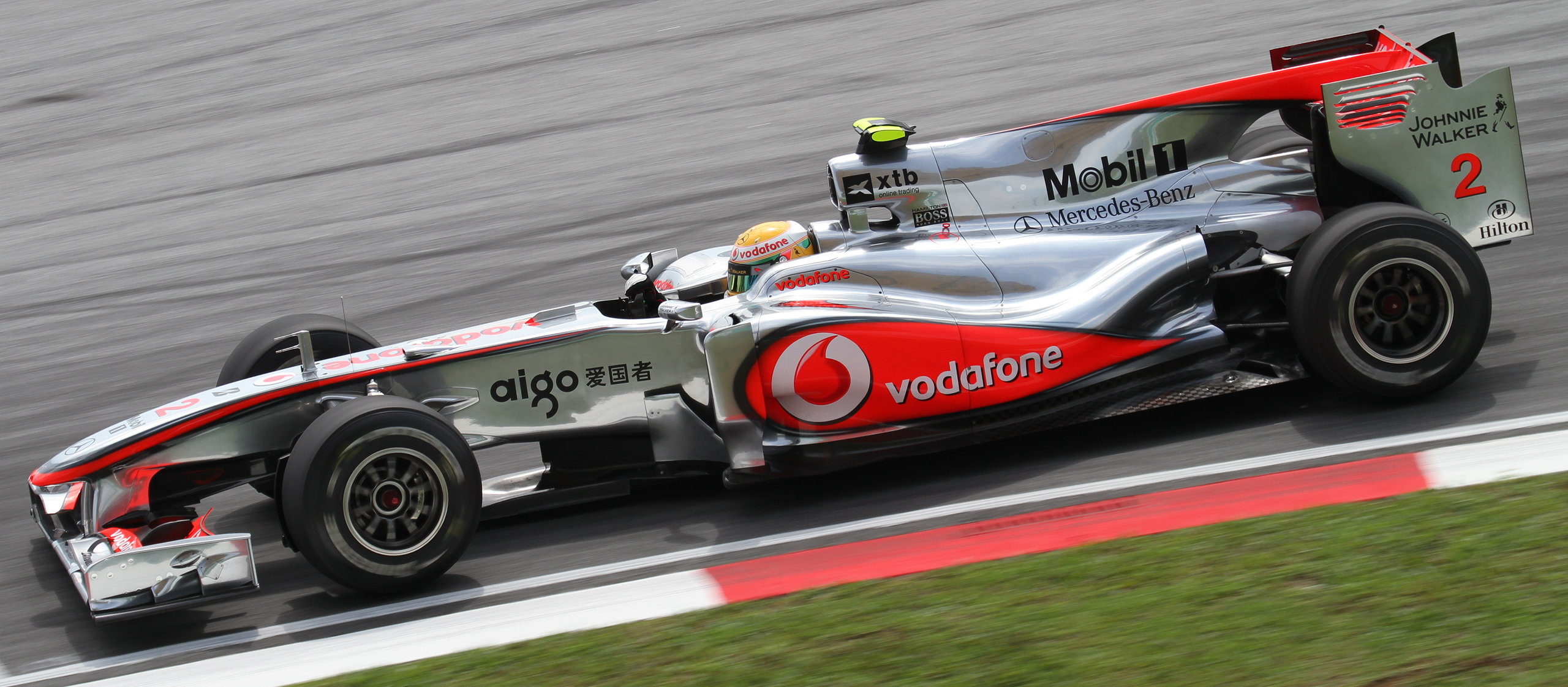 Formula One 2010 Rd.3 Malaysian GP: Lewis Hamilton (McLaren) during Friday 1st Free Practice session.